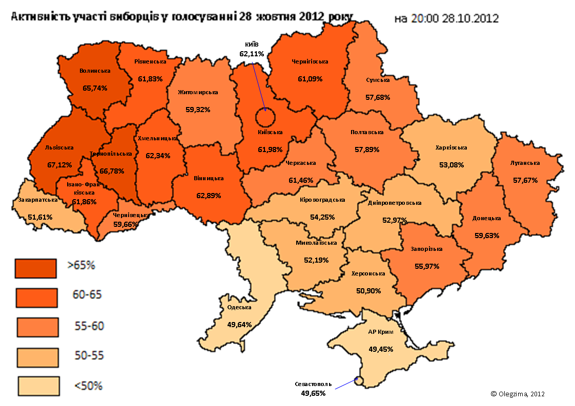 Turnout in Ukrainian parliamentary elections 2012-10-28